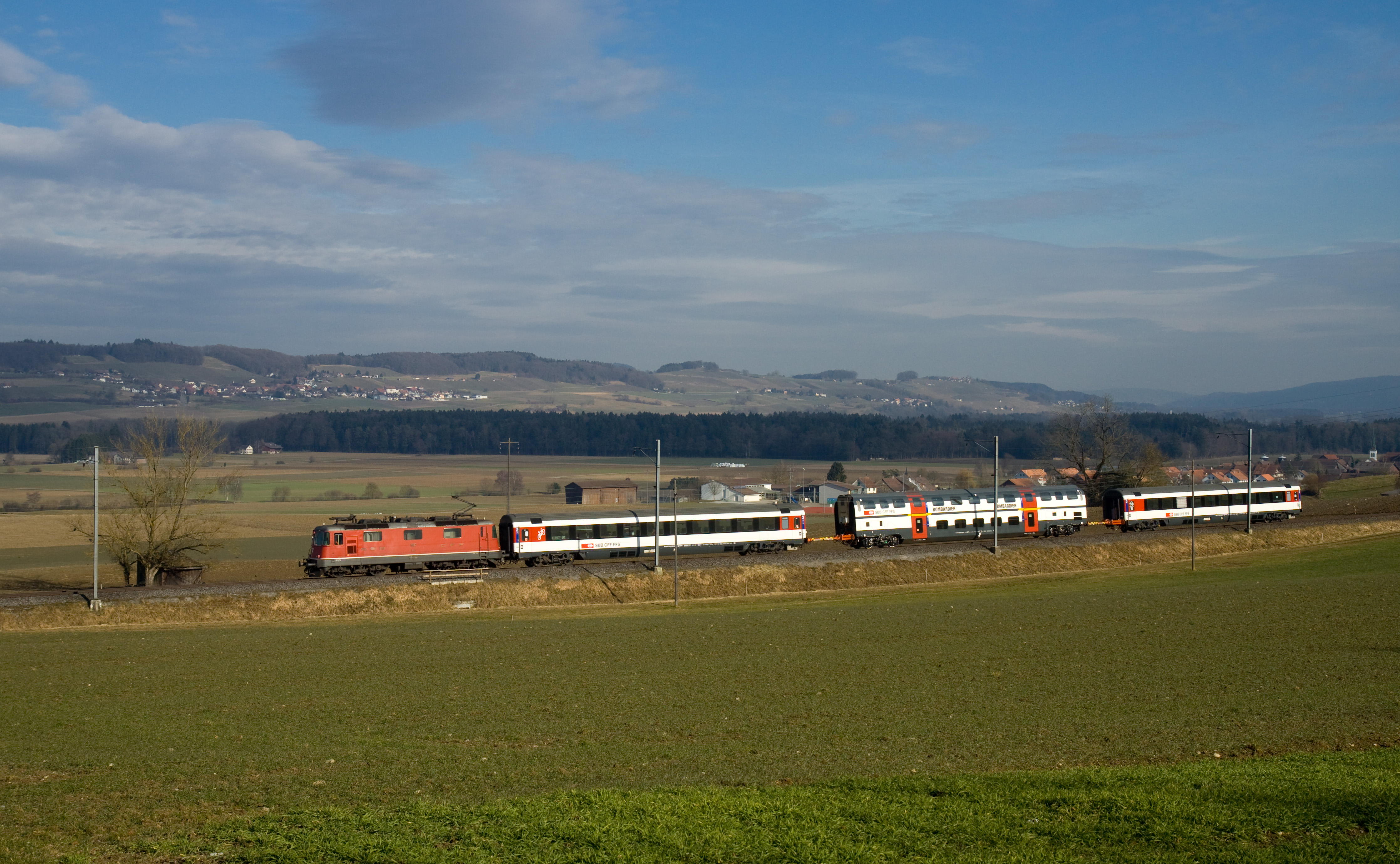 Trial runs with a modified IC2000 coach to test the new tilt mechanism. It is supposed to prevent double-deck coaches from tilting outwards (and thus exceeding the loading gauge) in curves with insufficient superelevation for the desired speeds. The ultimate goal is to build double-deck trains that can run on unmodified track at higher speeds. Between Thalheim-Altikon and Ossingen.